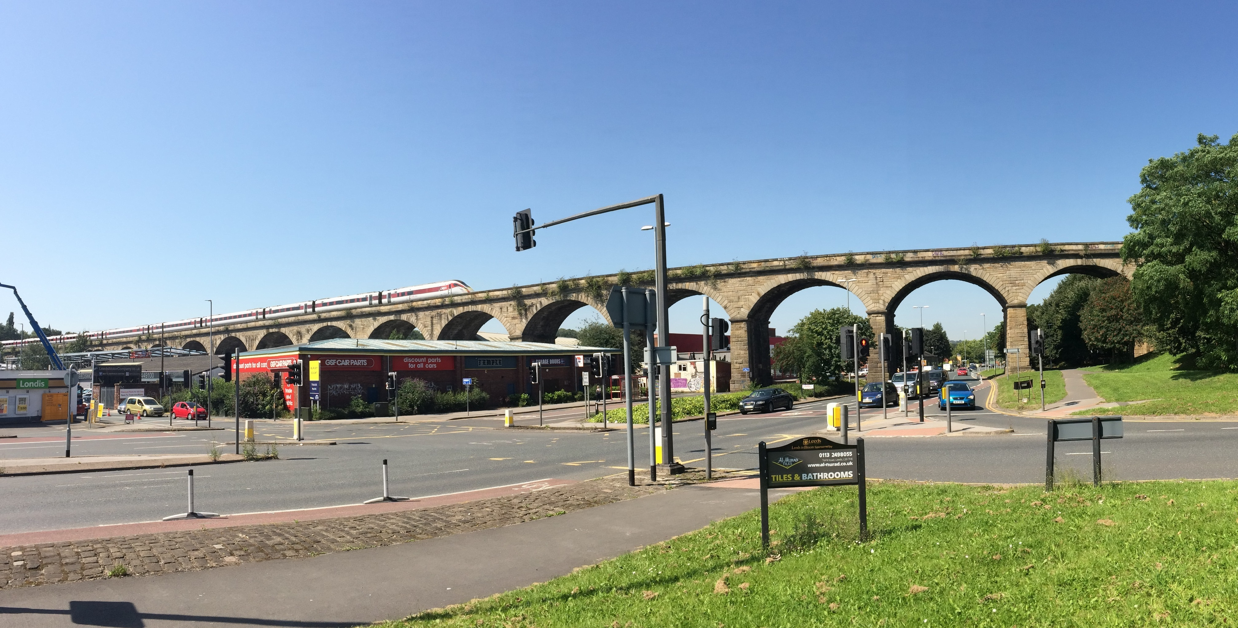 A panorama of Kirkstall Road Viaduct, which carries an LNER Azuma.